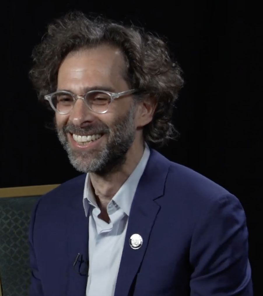 Daniel Fish interviewed by The Tony Awards in 2019